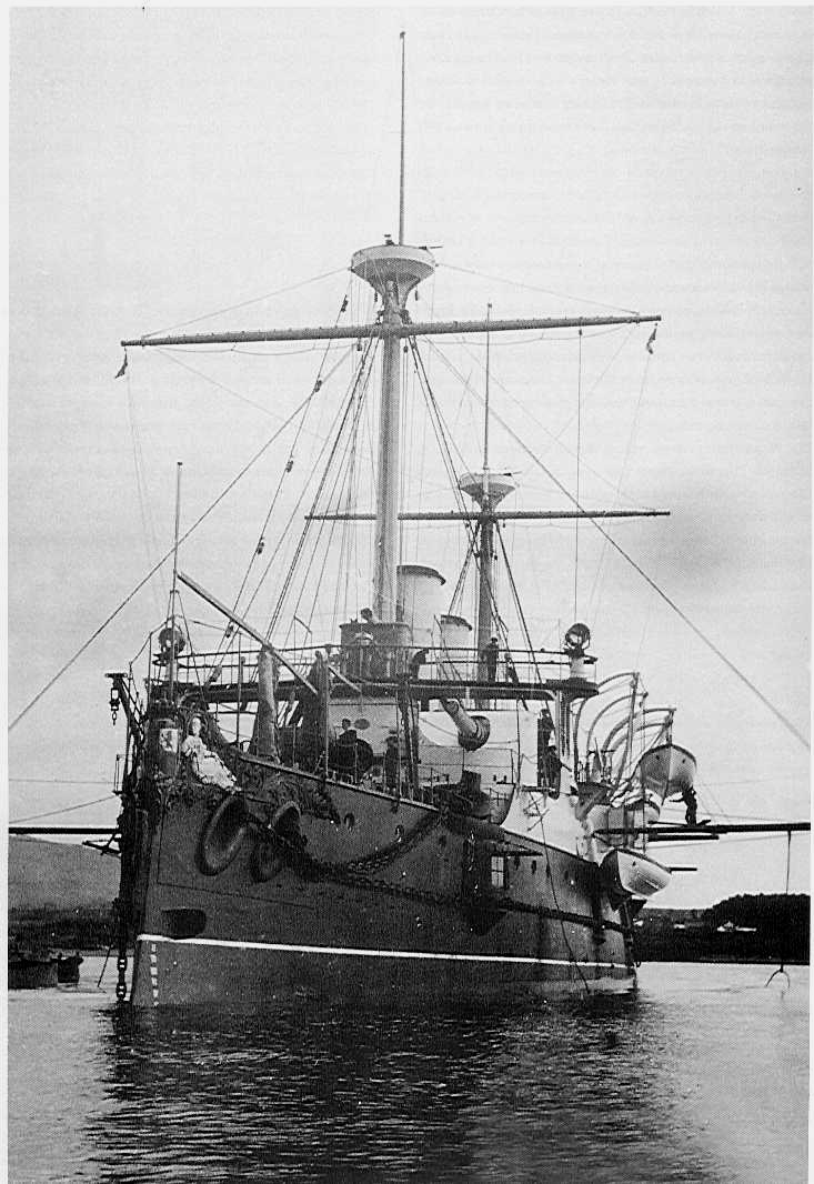 The protected cruise Reina Regente; it was first of his Class whith this name in honor to the queen of Spain, mother of Alfonso XIII. It was his launching in 1888, it entered 1889 in service and sank in 1895 in the gulf of Cadiz.